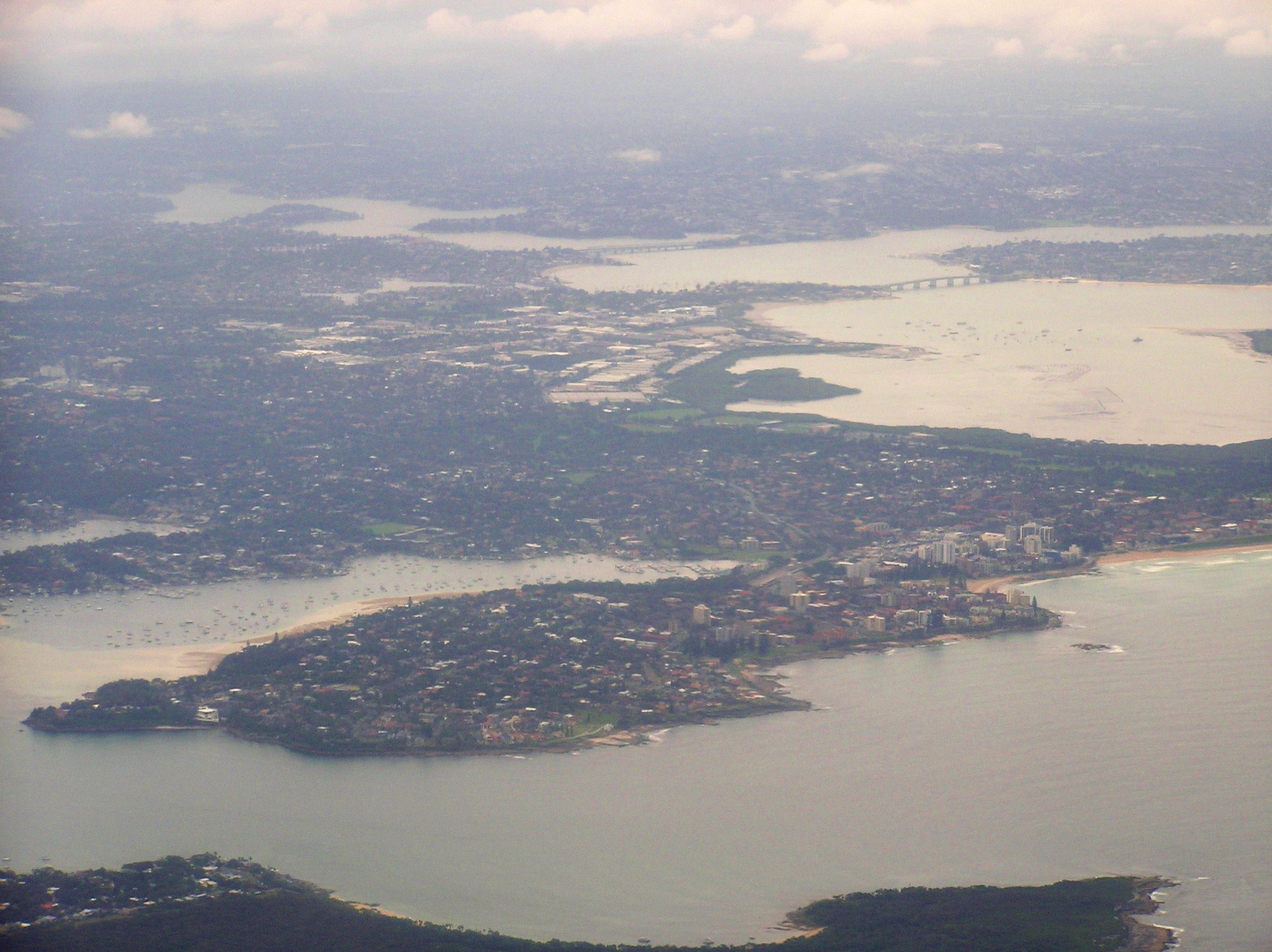 Cronulla New South Wales aerial photo